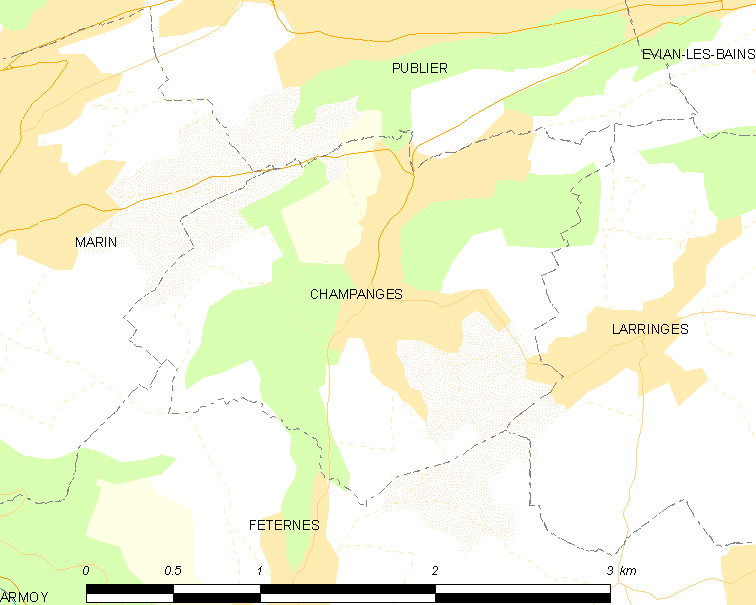 Map of French municipality Champanges